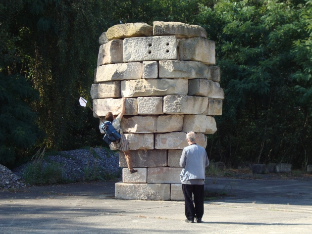 Kurt Gebauer, at his Kamenohlav sculpture, in the Mayrau mine mining complex in Kladen, is watching and documenting Milan Kohout's performance Climbing the Top of Arts.